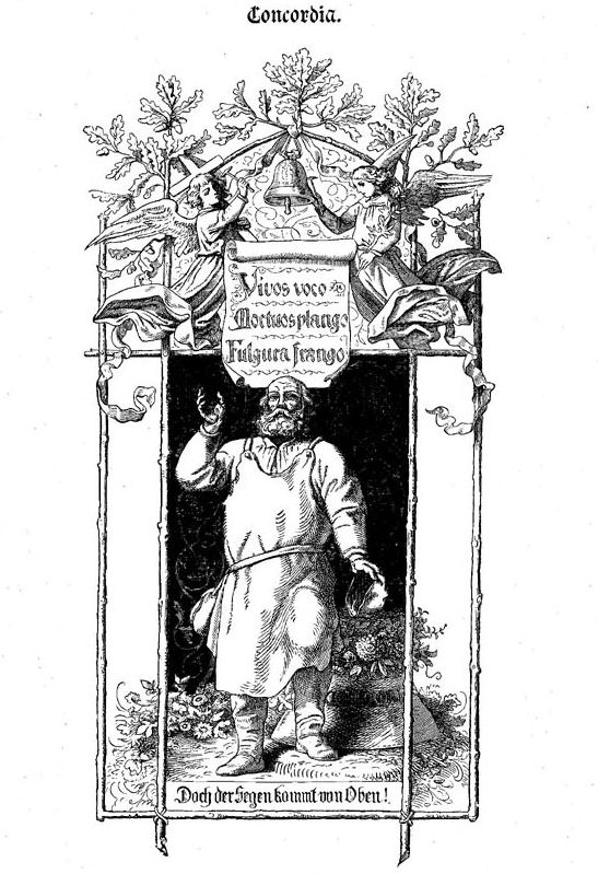 illustration of Friedrich Schiller's "Song of the Bell" (German: "Das Lied von der Glocke")